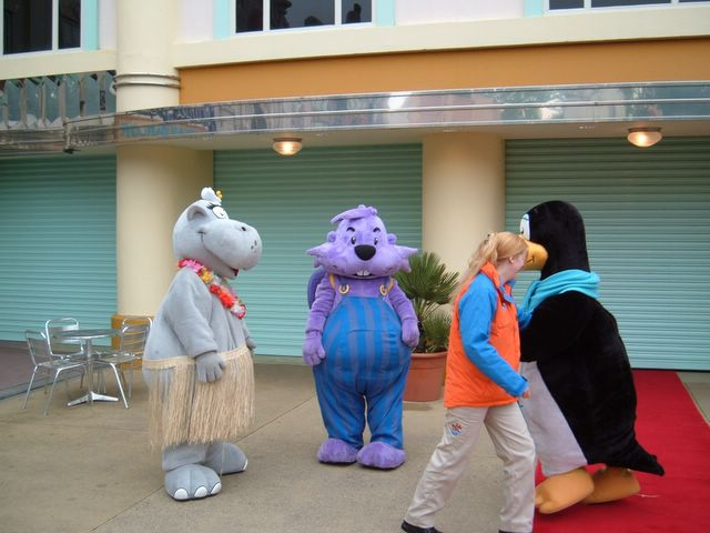 Walibi Mascottes 2